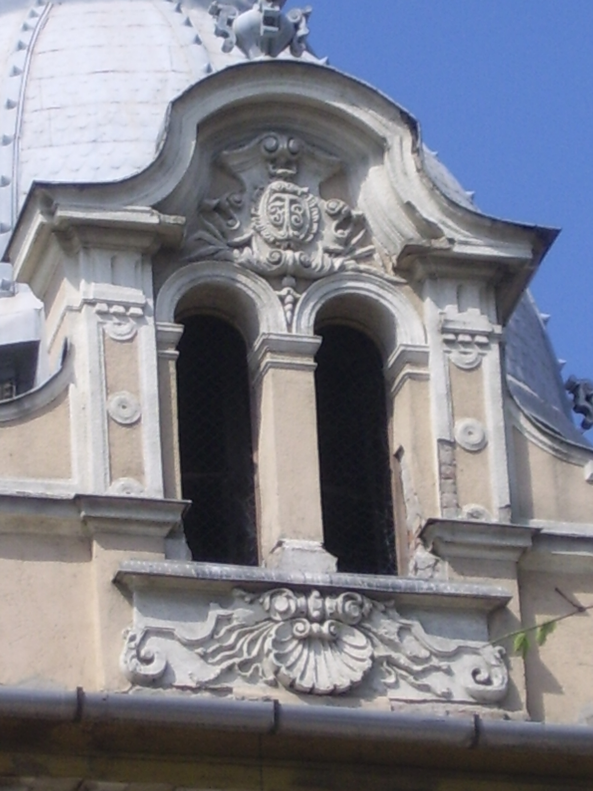 Facade of Tóth-palota in Szeged